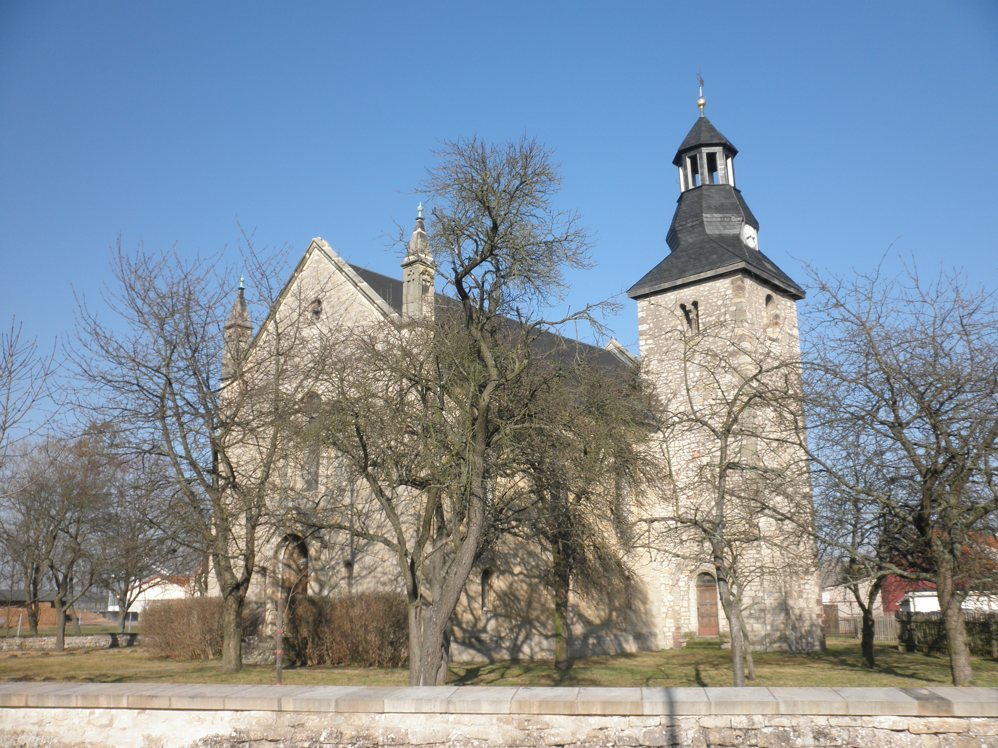 Church in Achelstädt(Witzleben) in Thuringia